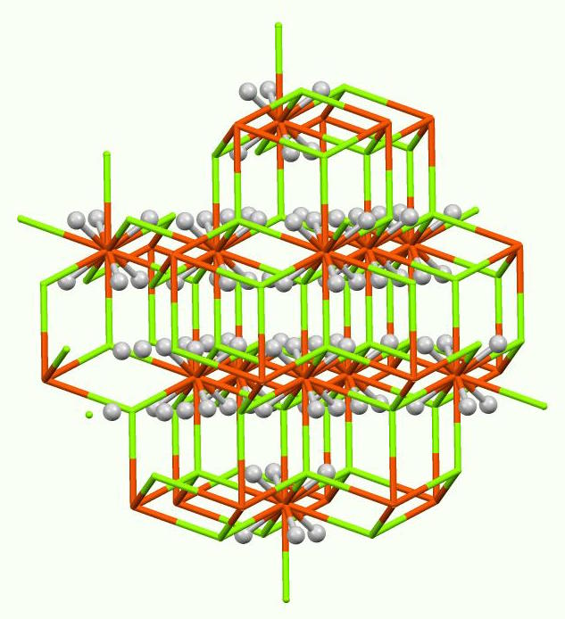 Mg2FeH6 lattice